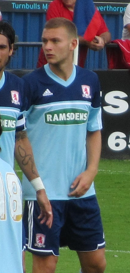 Ben Gibson playing for Middlesbrough against York City at Bootham Crescent, York on 4 August 2012